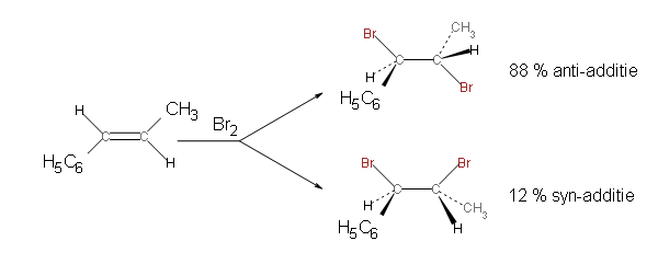 Reaction scheme of addtion of bromine to 1-fenylpropene